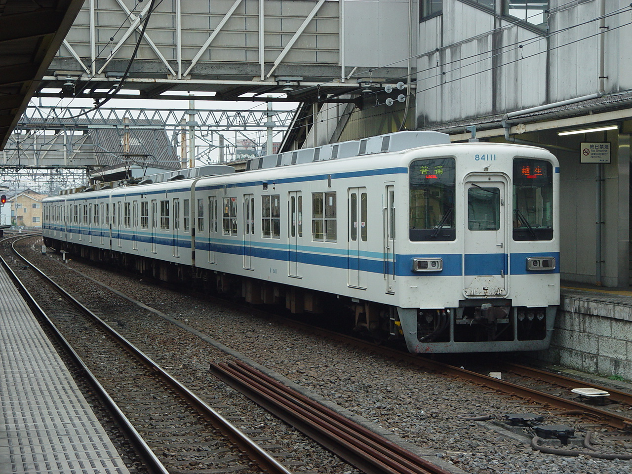 A Tobu 8000 series 4-car EMU at Sakado station on a Ogose Line service